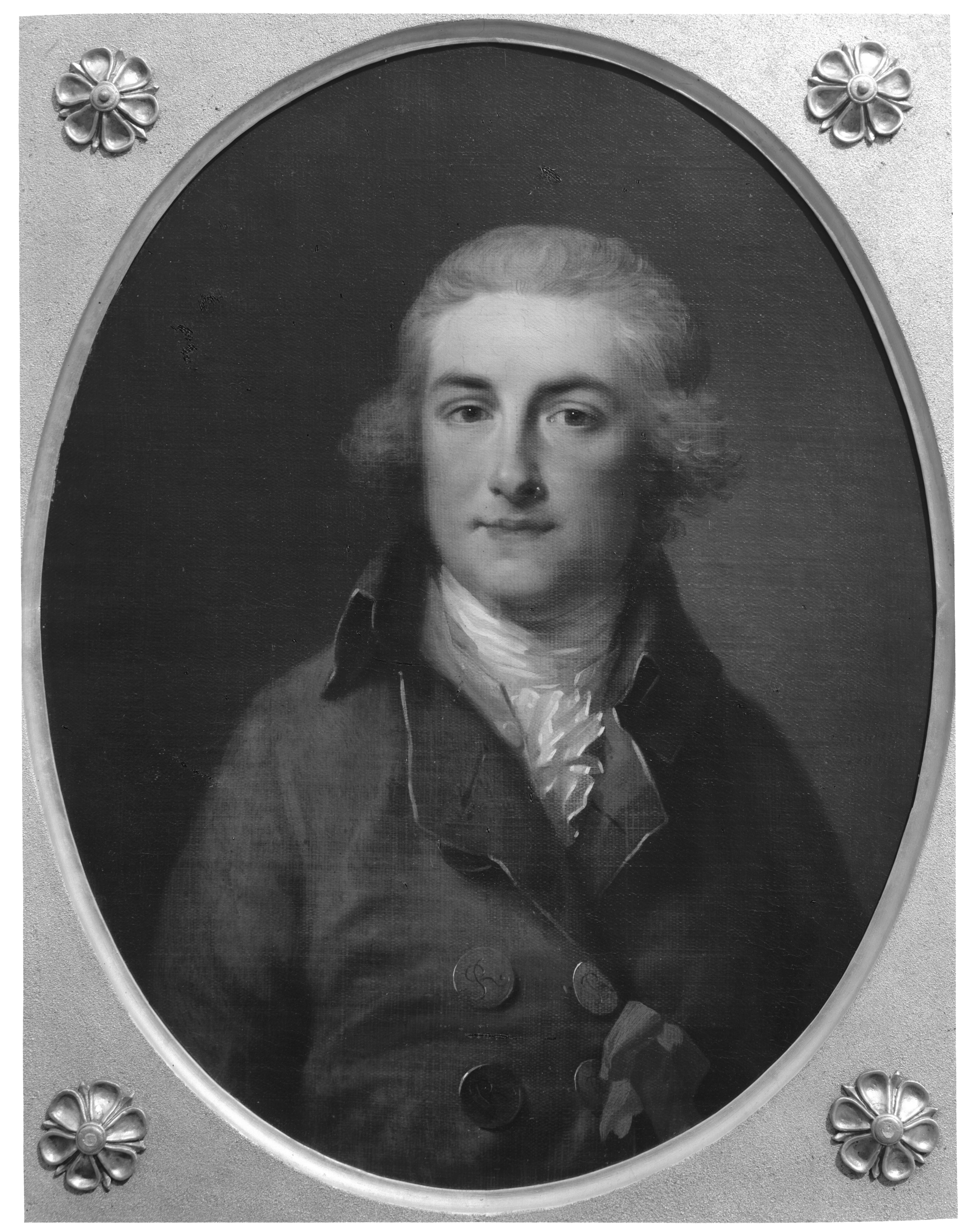 .Anne Willem Carel van Nagell